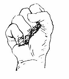 PD-Polish